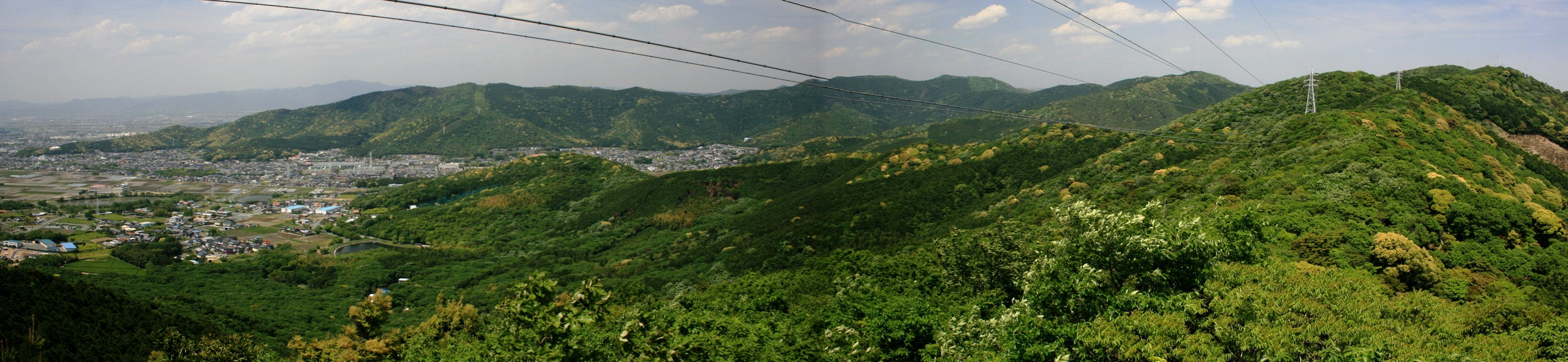 Yumihari Mountains and Imo Wetland